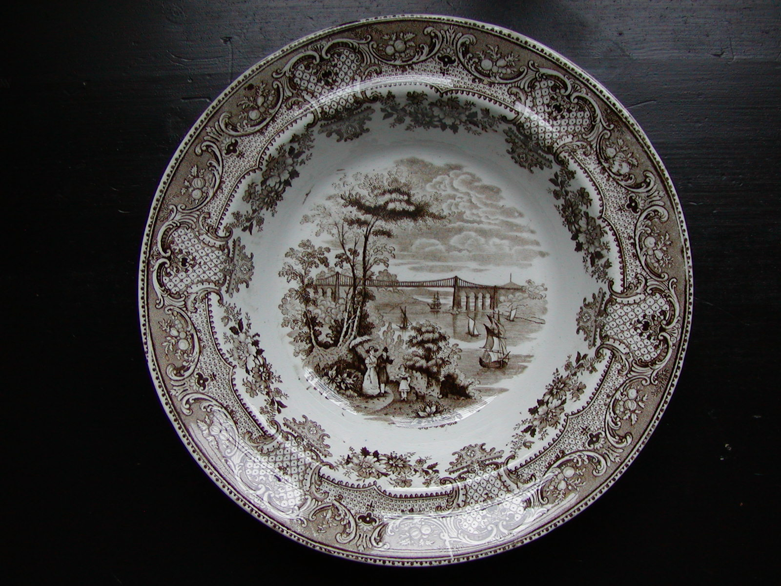 A Staffordshire stoneware plate from the kitchen of Fredrika Runeberg. From a series Select Sketches picturing the Menai Bridge. At the Home museum of Johan Ludvig Runeberg in Porvoo, Finland.